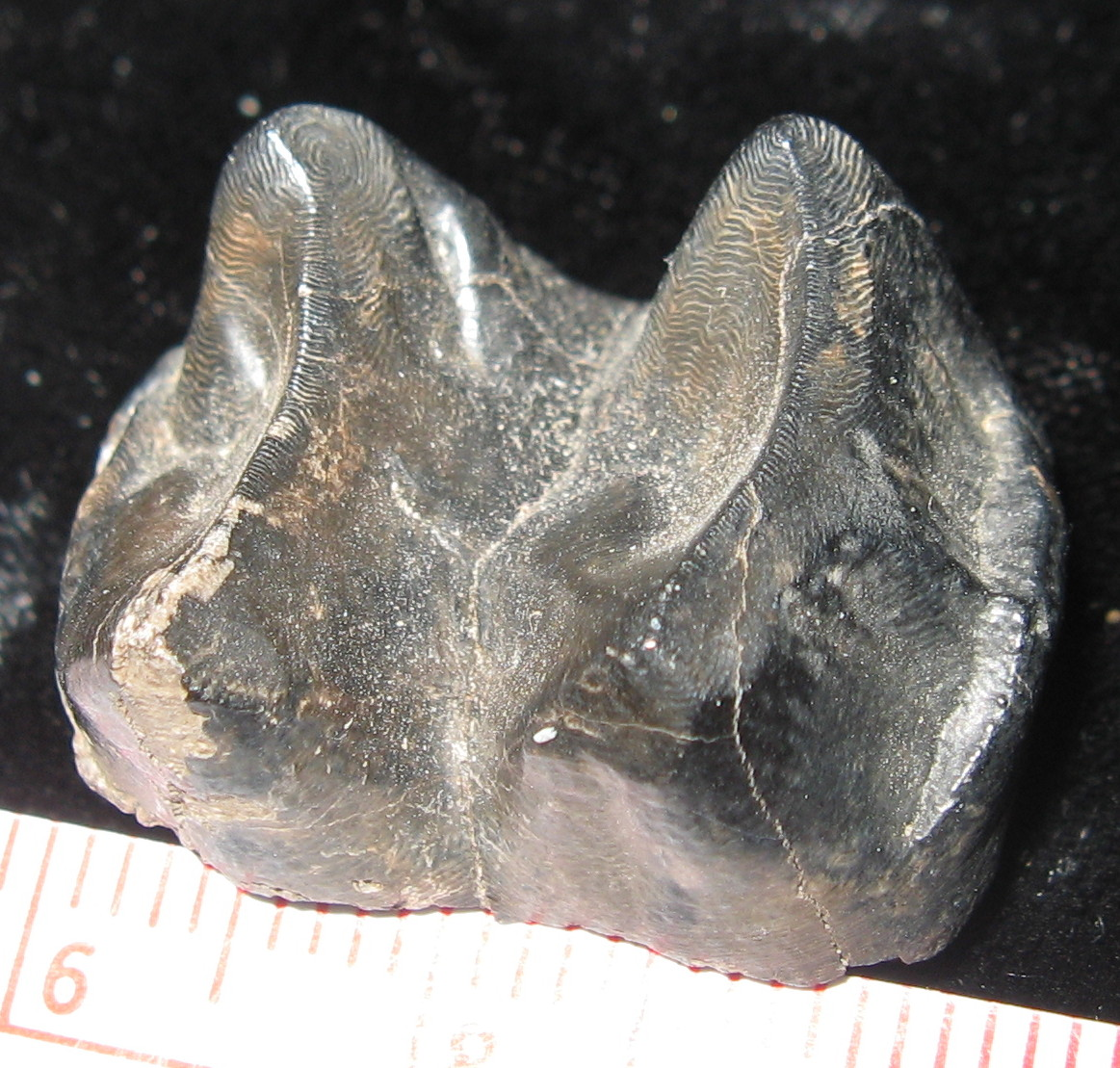 Tooth from the extinct North american Tapirus veroensis 2.5cm wide. ~1 million years old, Aluvial deposits, Florida, USA